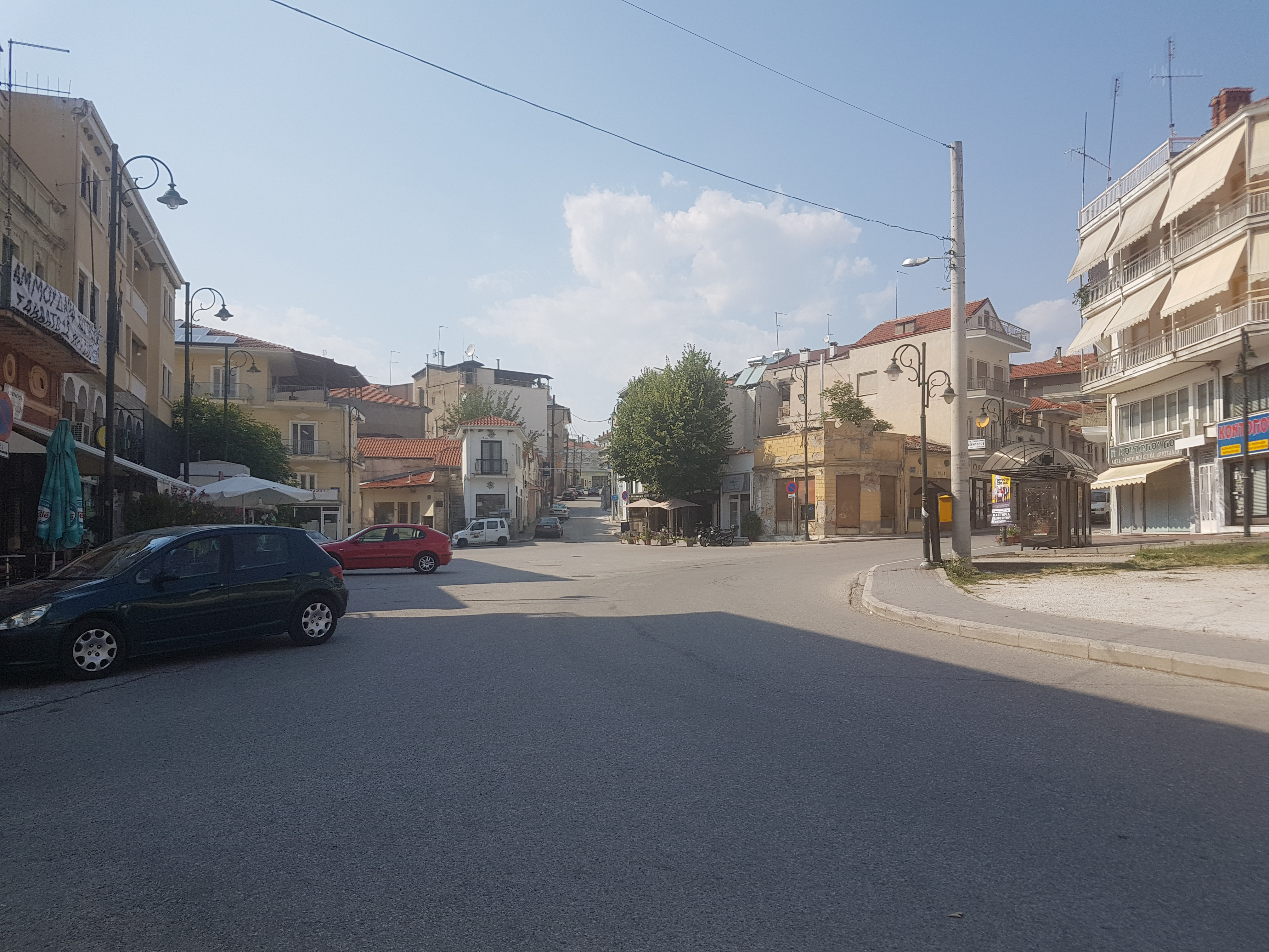 Argos Orestikon central square, Kozani Prefecture (see also older photo at File:Рупишта.jpg)